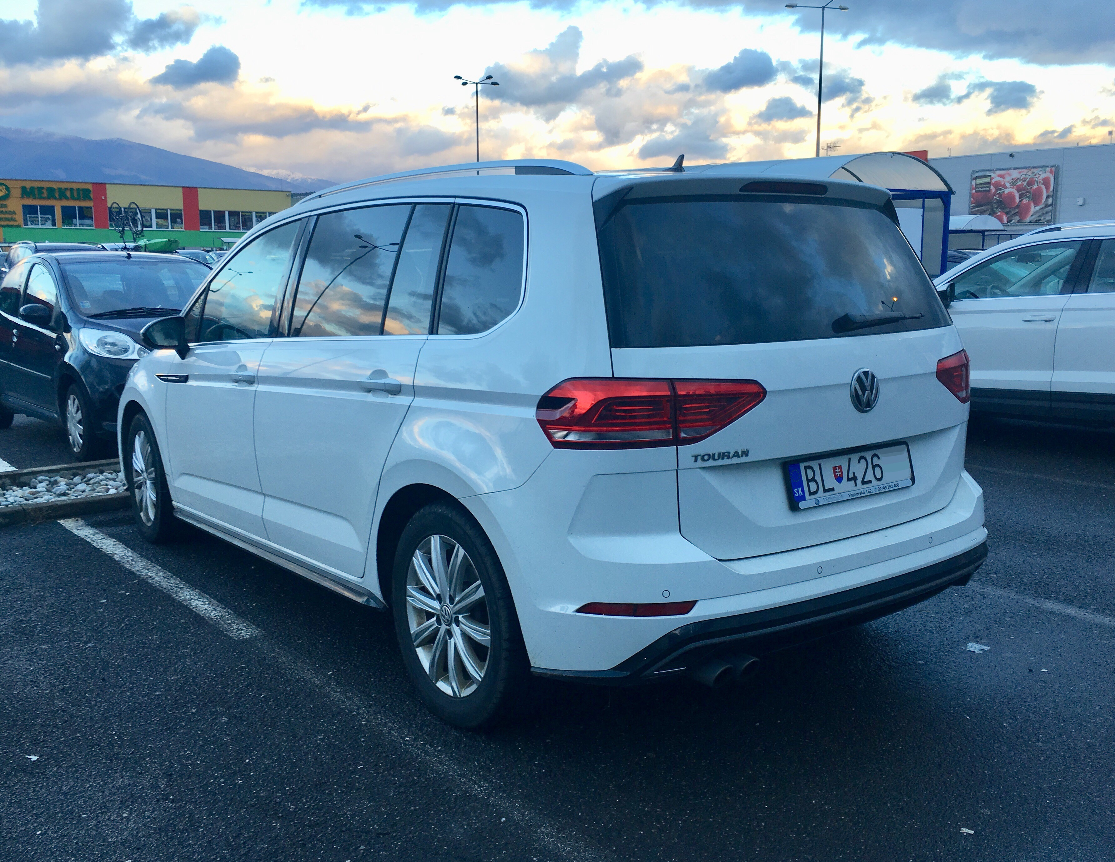 Volkswagen Touran MkIII in Liptovsky Mikuláš, Slovakia